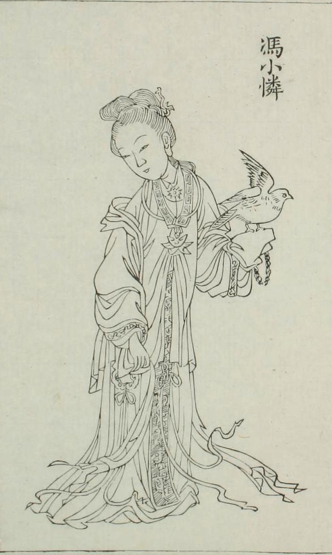 This is a image about the Feng Xiaolian.